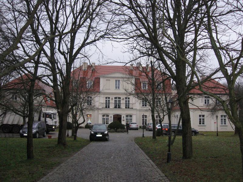 Palac_Godetowo